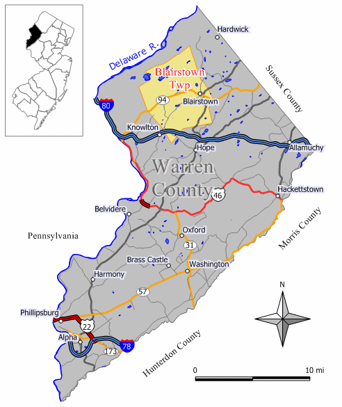 Original work by Jim Irwin, December 2005. Map of Blairstown Township in Warren County, New Jersey.